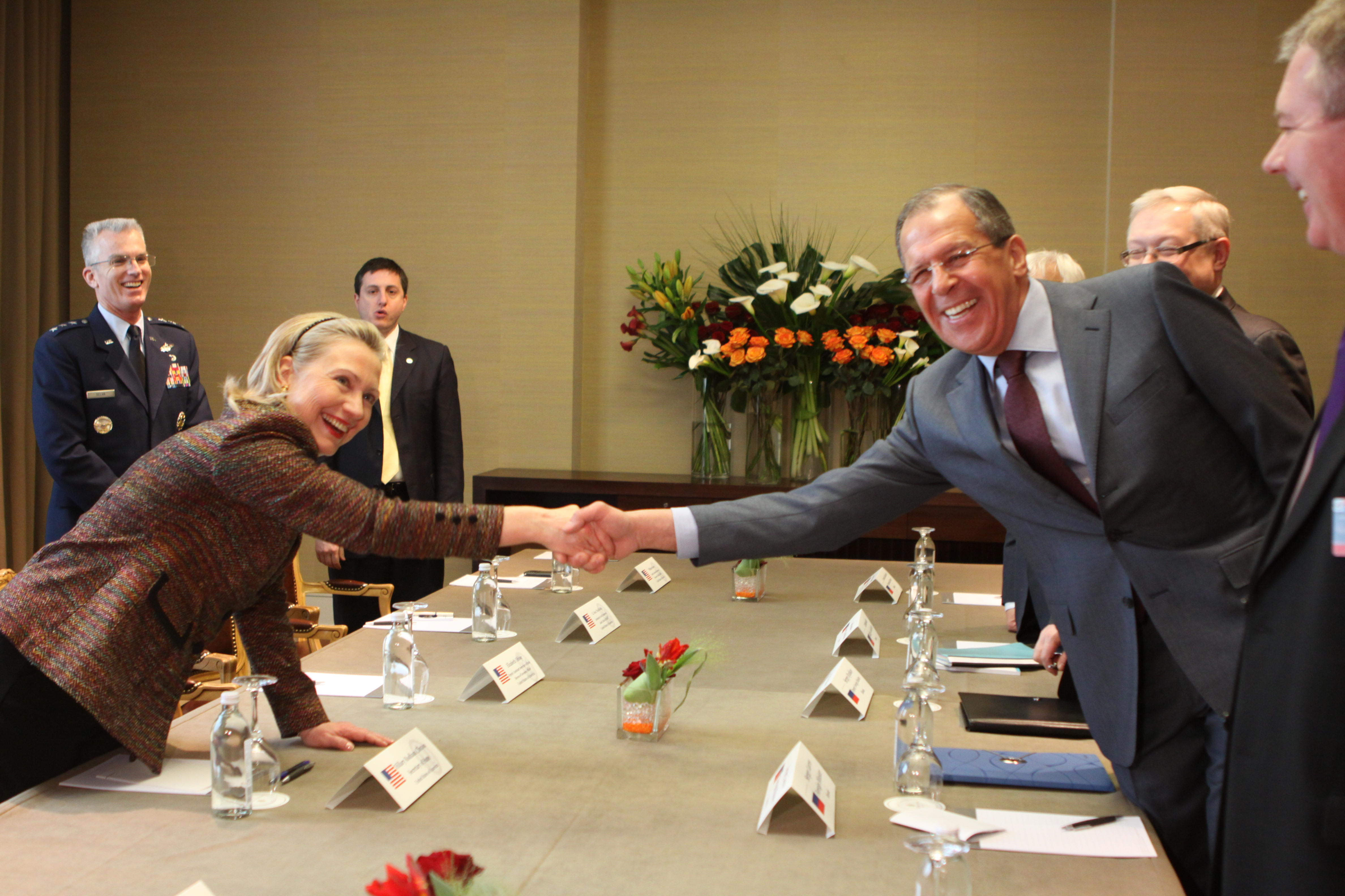 U.S. Secretary of State Hillary Rodham Clinton shakes hands with Russian Foreign Minister Sergey Lavrov before a bilateral meeting at the Intercontinental Hotel in Geneva, Switzerland, on February 28, 2011. [Eric Bridiers photo/ State Department/ Public Domain]